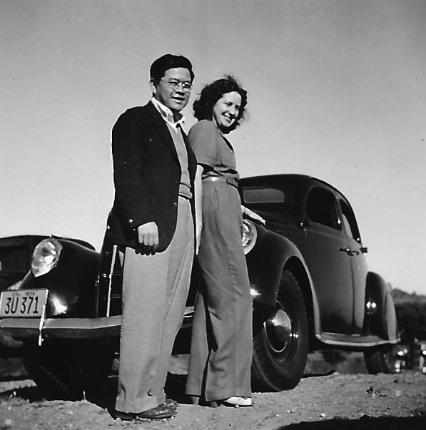 The Chinese American cinematographer James Wong Howe with his wife, the American author Sanora Babb